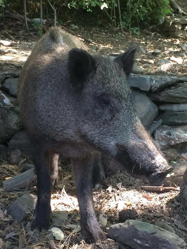 A wild female adult boar in Kuşadası National Park, Turkey.